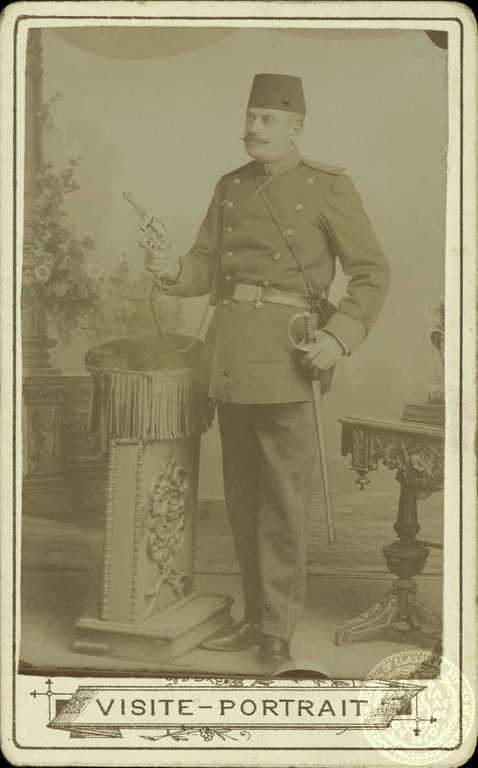 Naoum_Kalaritis